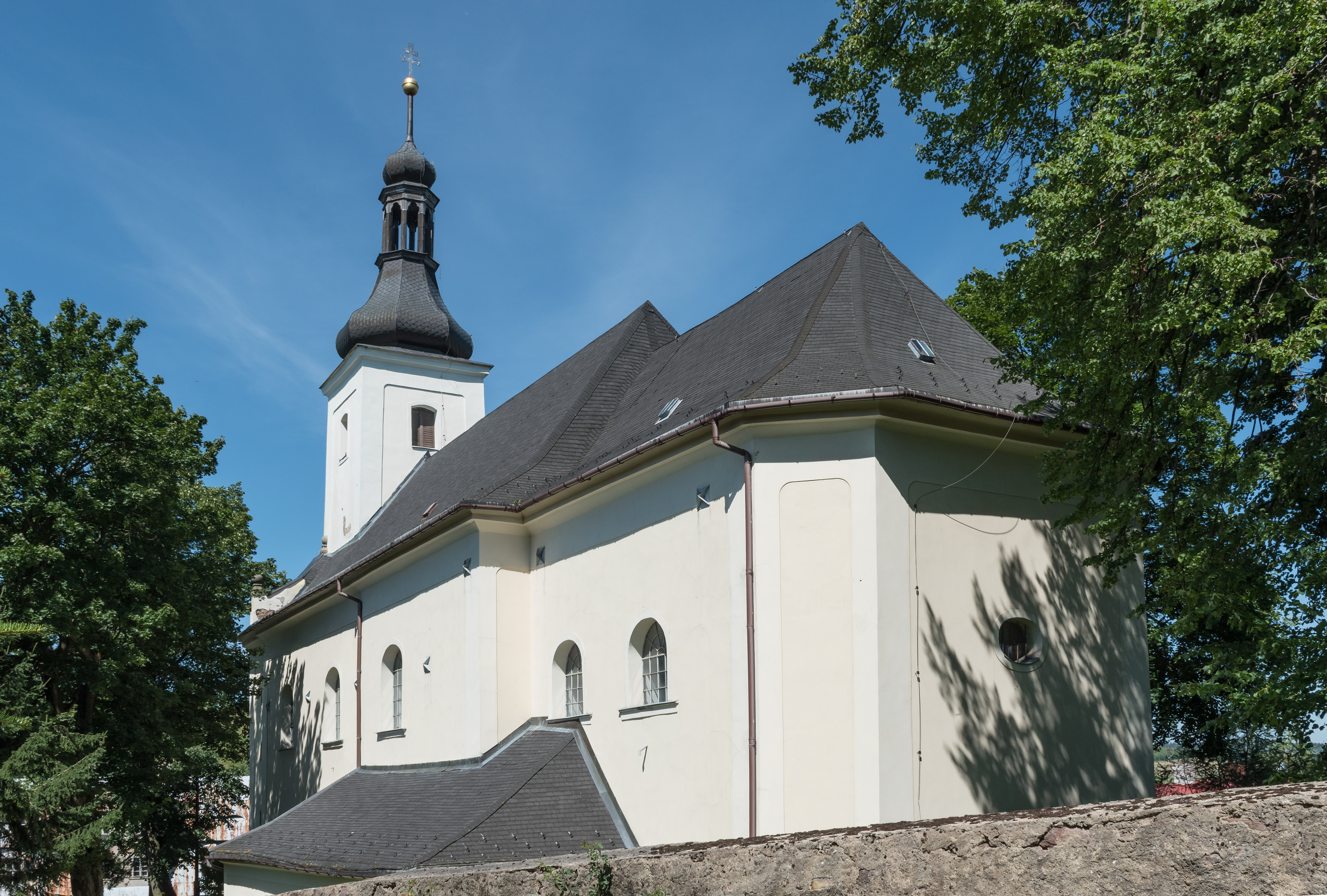 Saint Nicholas church in Świerki Wikidata has entry Q30049445 with data related to this item.